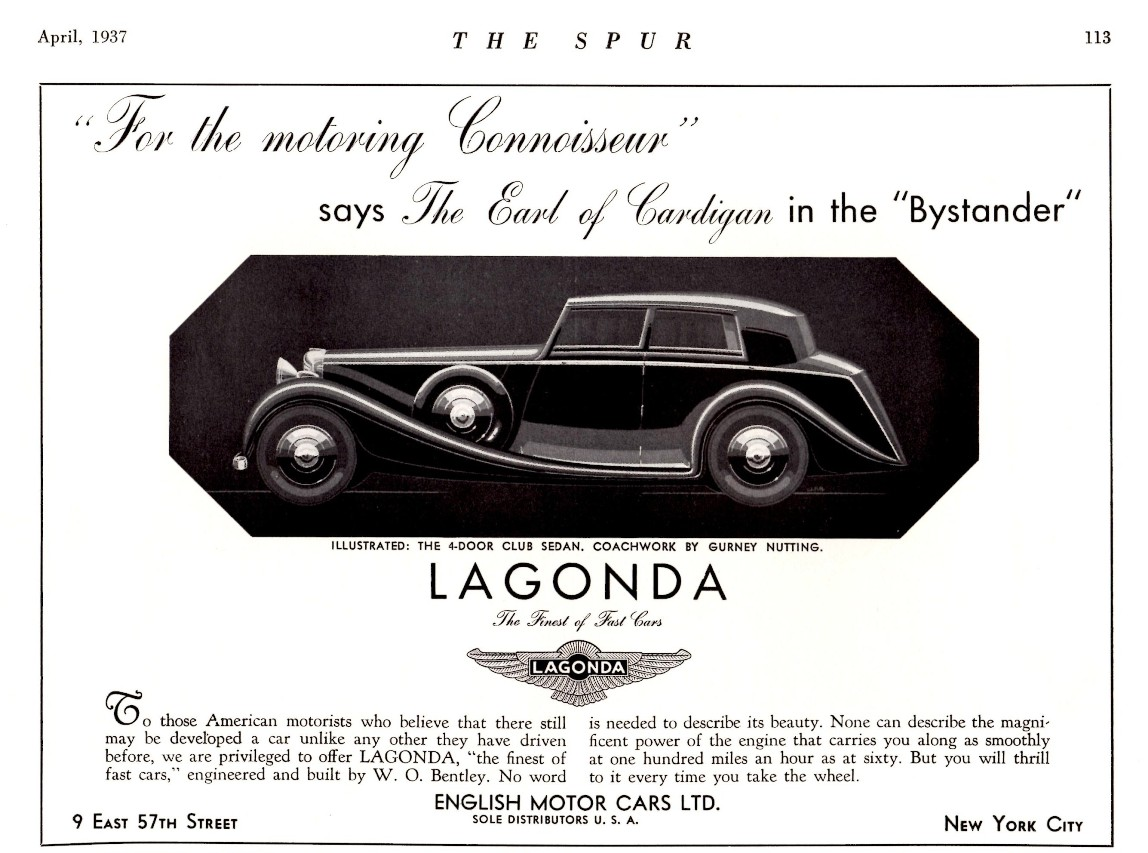 This car is from the period during which W. O. Bentley was responsible for the design of Lagondas. Lagonda was later acquired by Aston Martin.